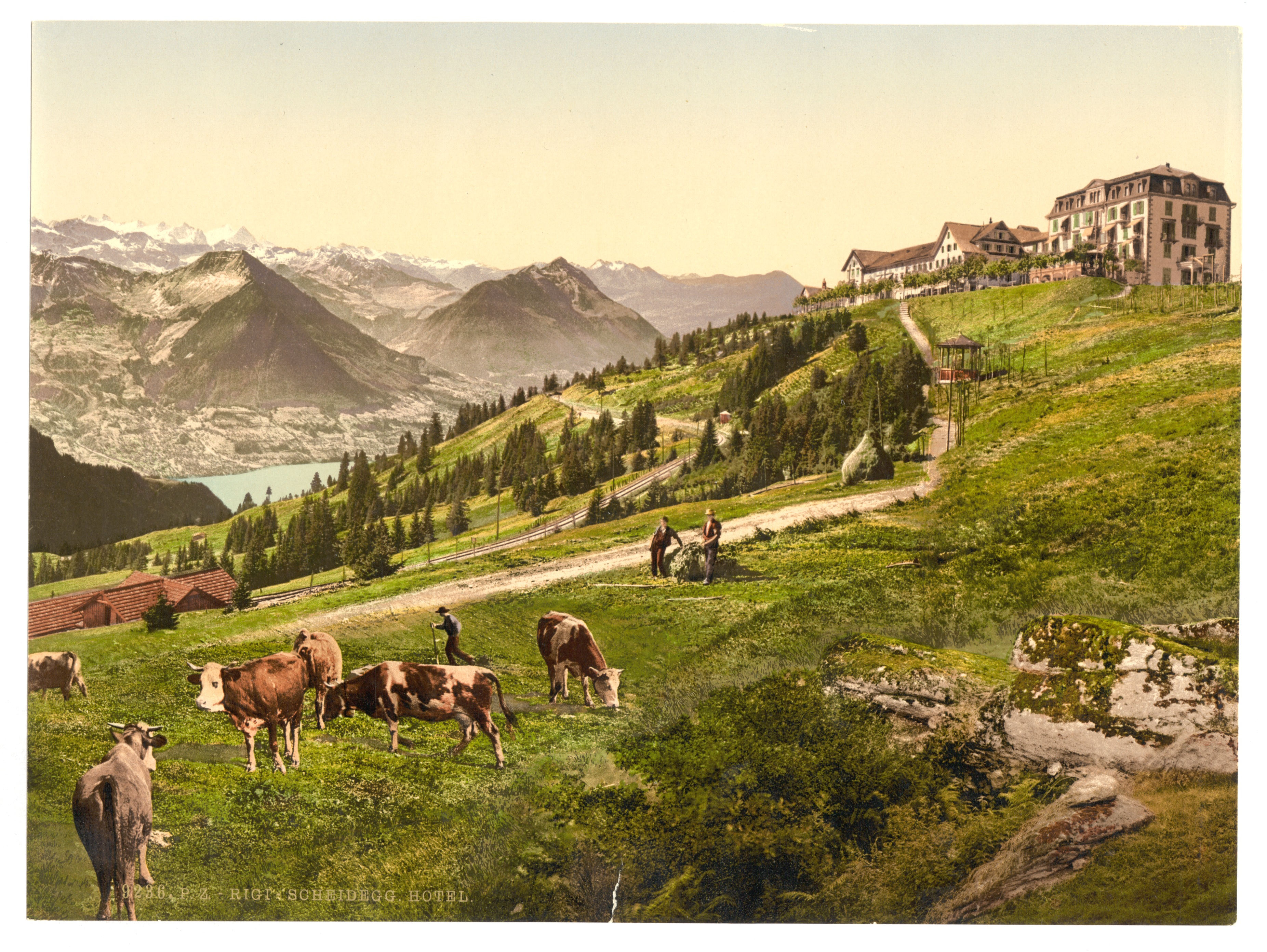 Print no. "9236".; Forms part of: Views of Switzerland in the Photochrom print collection.; Title from the Detroit Publishing Co., Catalogue J-foreign section, Detroit, Mich. : Detroit Publishing Company, 1905.